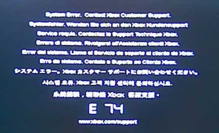 Screenshot of an E74 error message.